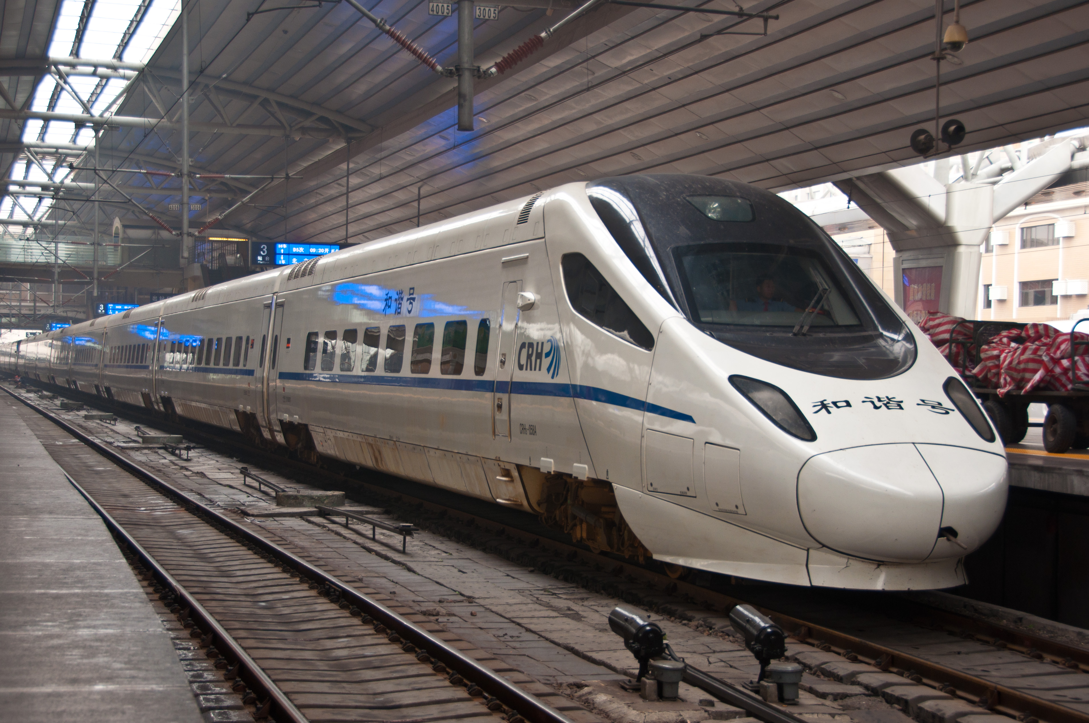 A CRH5 locomotive on the China Railways train between Beijing and Shenyang sits at the Beijing Railway Station.